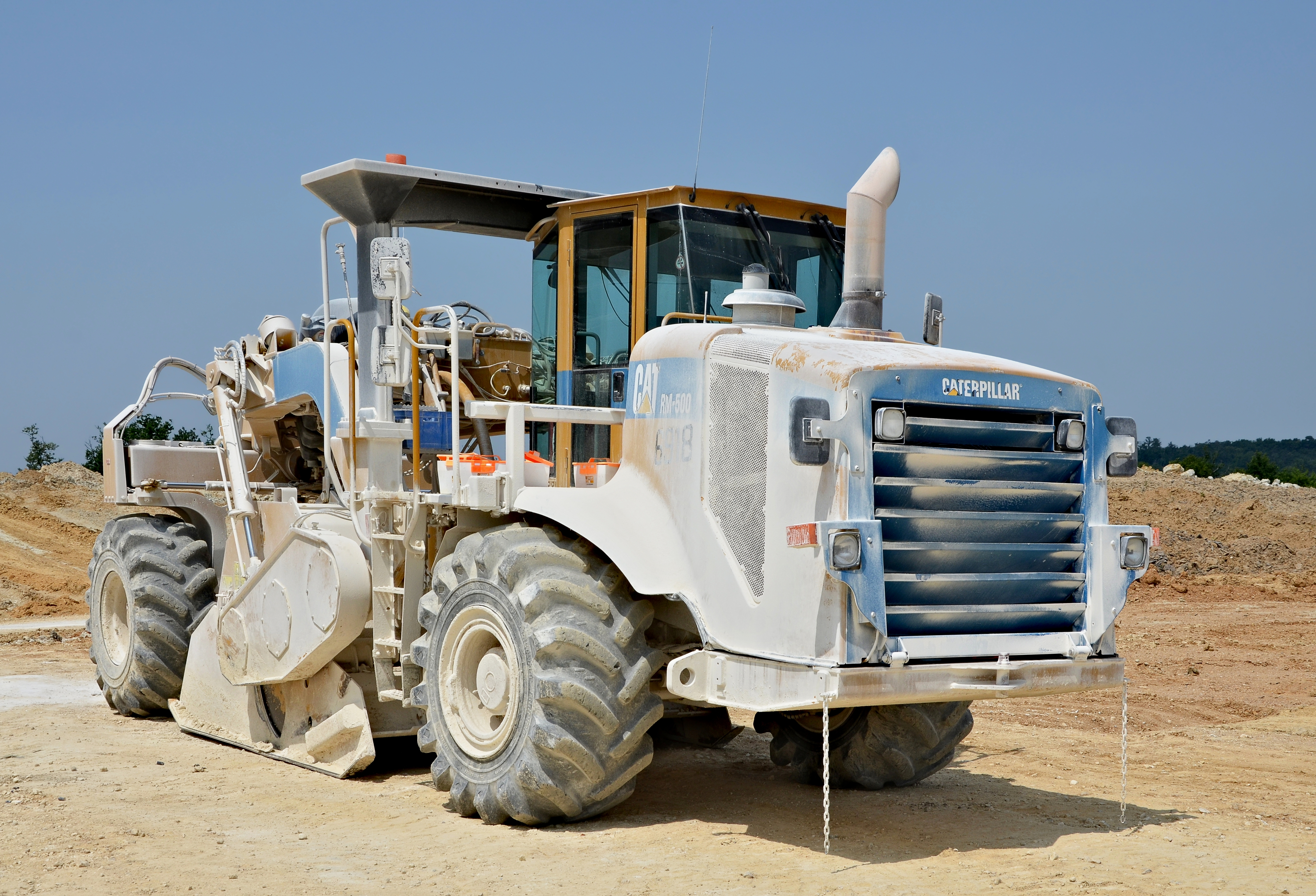 Caterpillar RM-500 on a site of LGV Sud Europe Atlantique construction, Poullignac, Charente France.